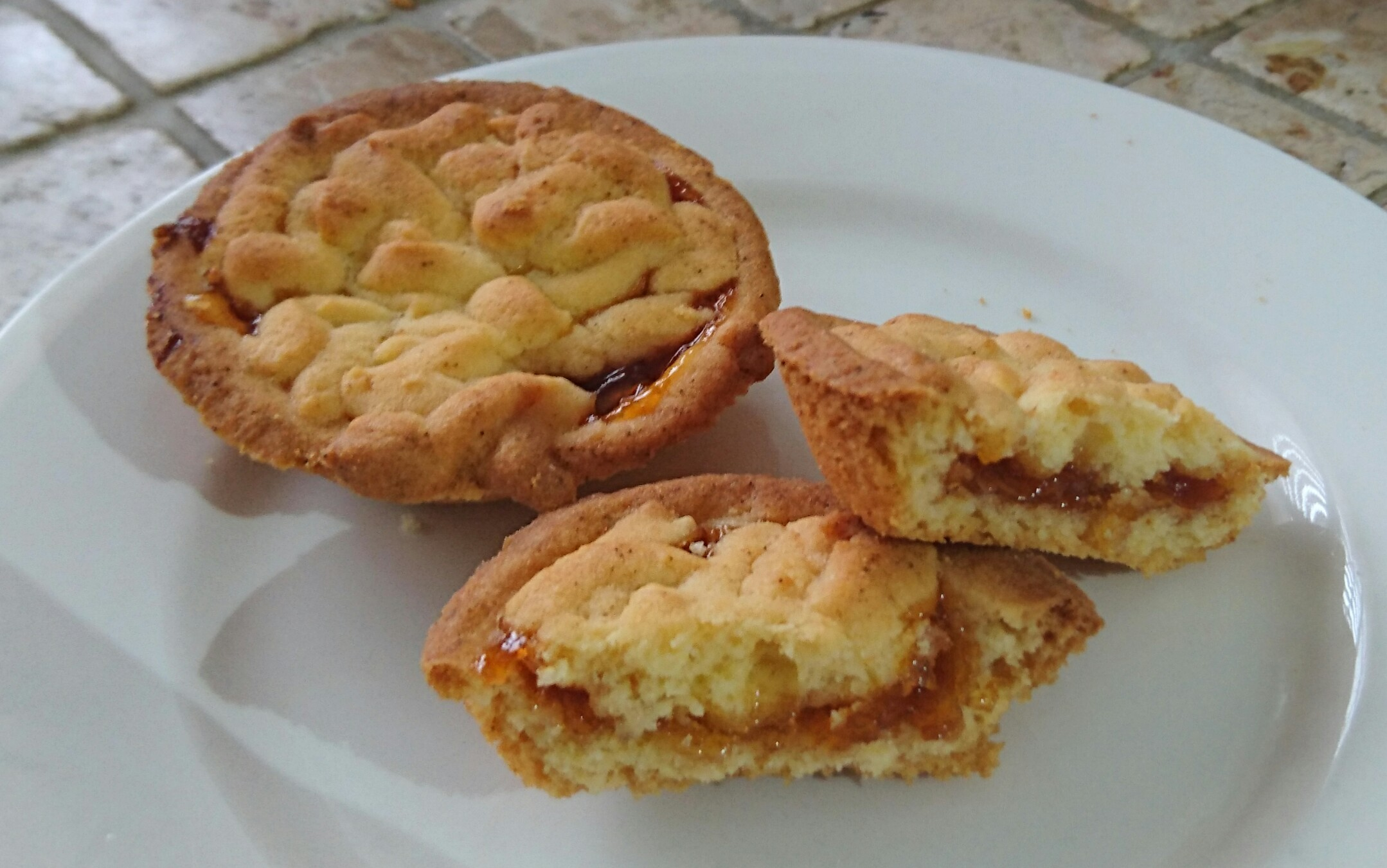 Two Smuts Cookies from South Africa, one of which has been broken in two to show the apricot jam filling.